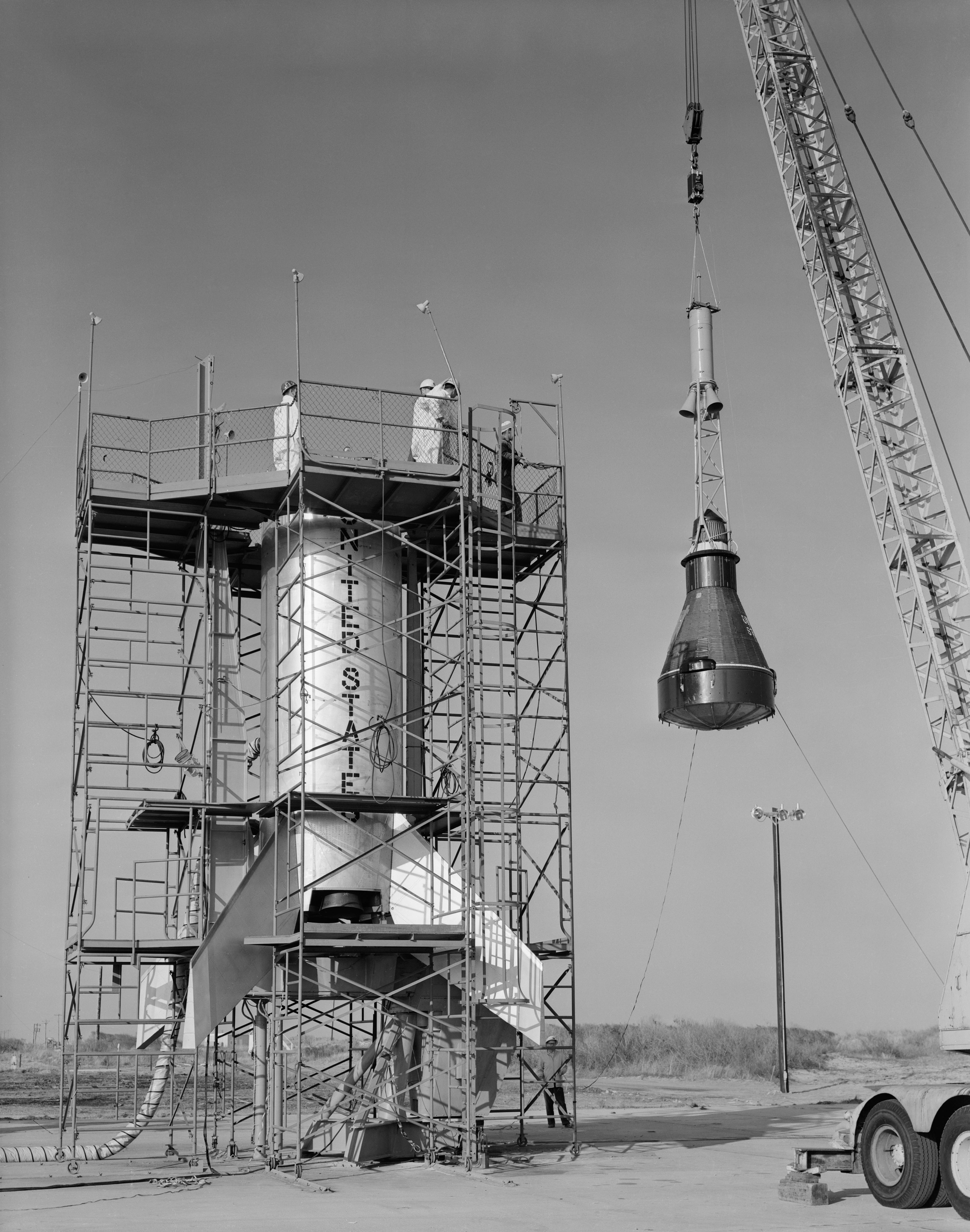 View of the mating of Little Joe-5B launch vehicle with Mercury capsule #14.